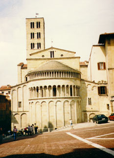 Church of Santa Maria della Pieve, Arezzo, Italy. Photo by Infrogmation, 1993; uploaded to Wikipedia by Inforgmation 05:20, 4 May 2003